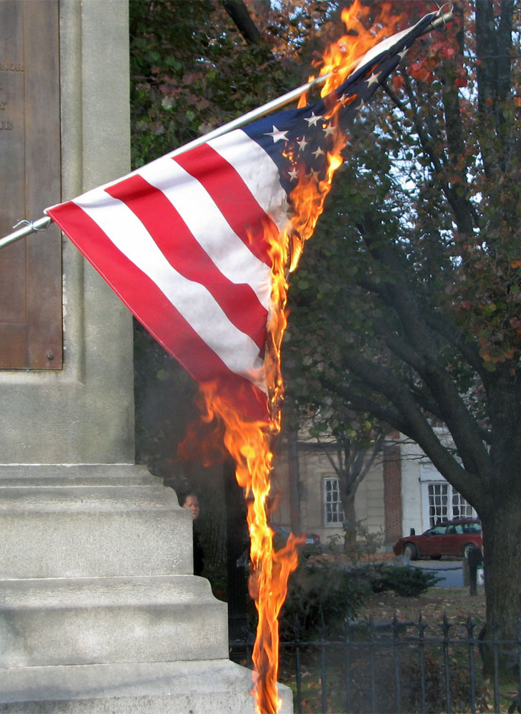 The flag of the United States being burned.